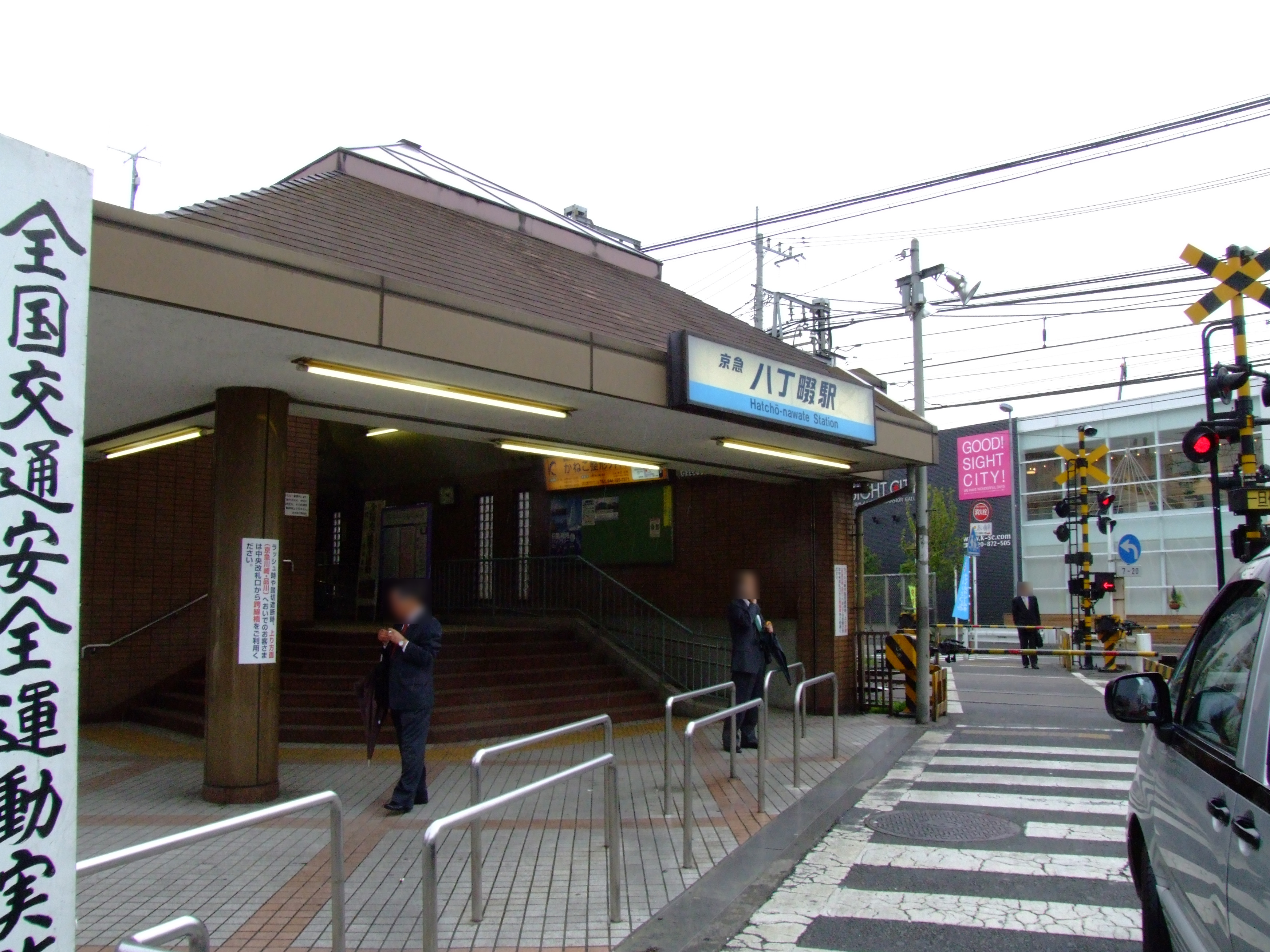 Keihin Electric Express Railway / East Japan Railway Hatchōnawate Station